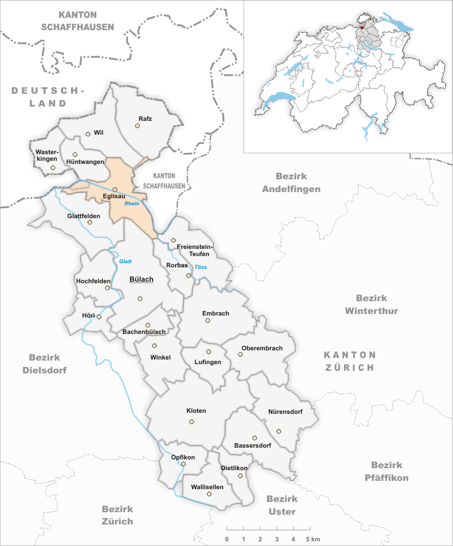 Municipality Eglisau